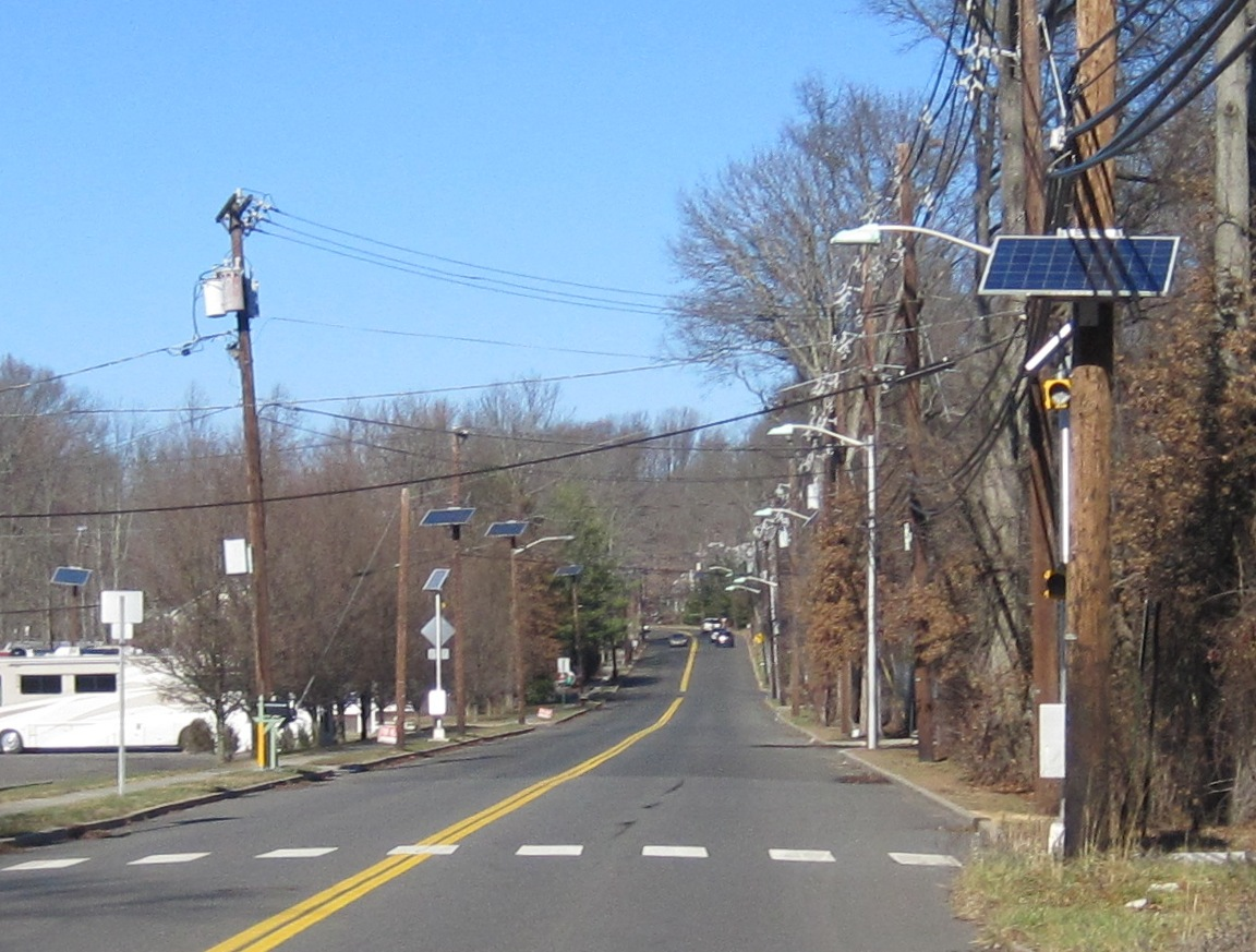 Photo showing installed solar panels on multiple PSE&G utility poles as seen along New Road in South Brunswick, New Jersey.